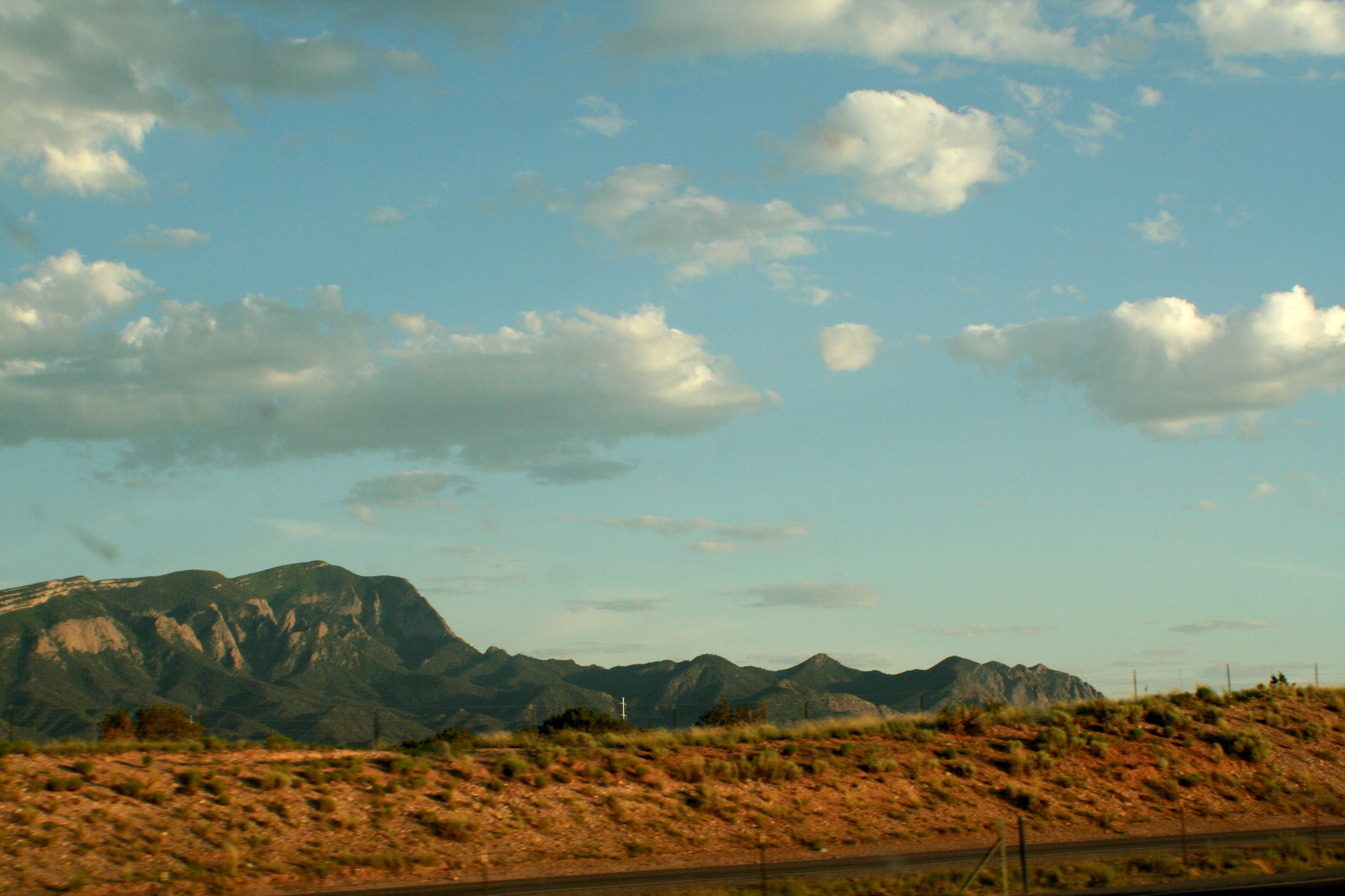 Sandia mountains from I-25 north of Albuquerque.